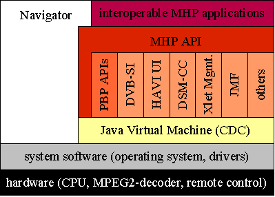 The image shows the software stack of the MHP platform version 1.0.X.